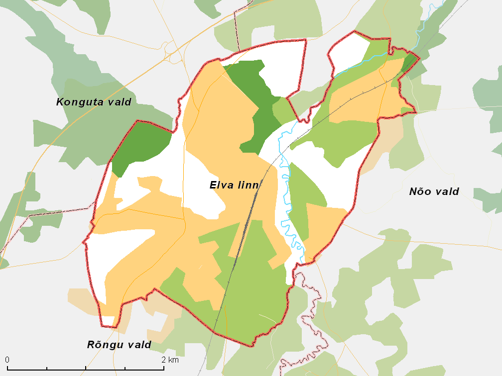 Map of municipality in Estonia